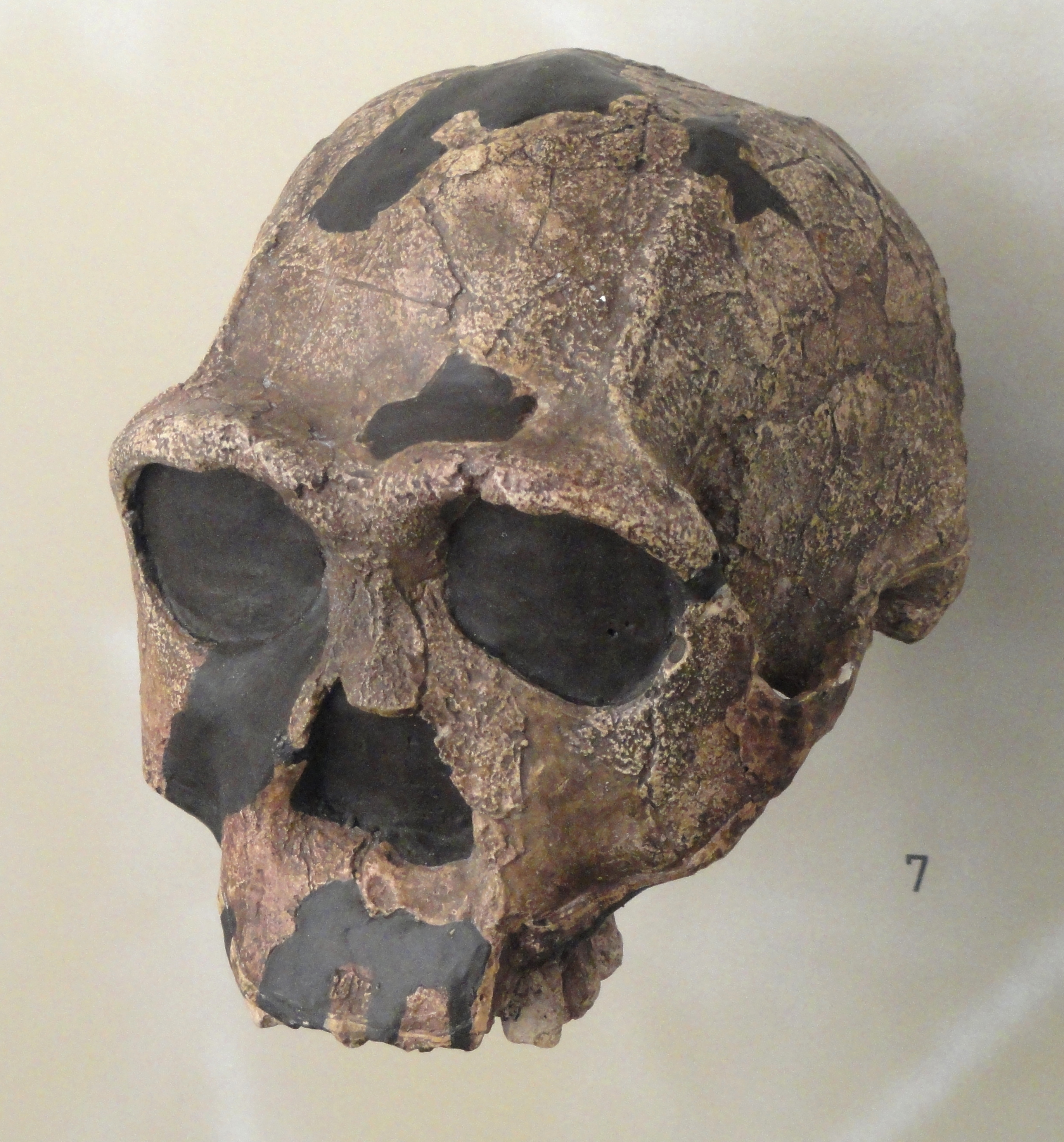 Homo erectus skull. Exhibit in Naturmuseum Freiburg, Freiburg im Breisgau, Baden-Württemberg, Germany.